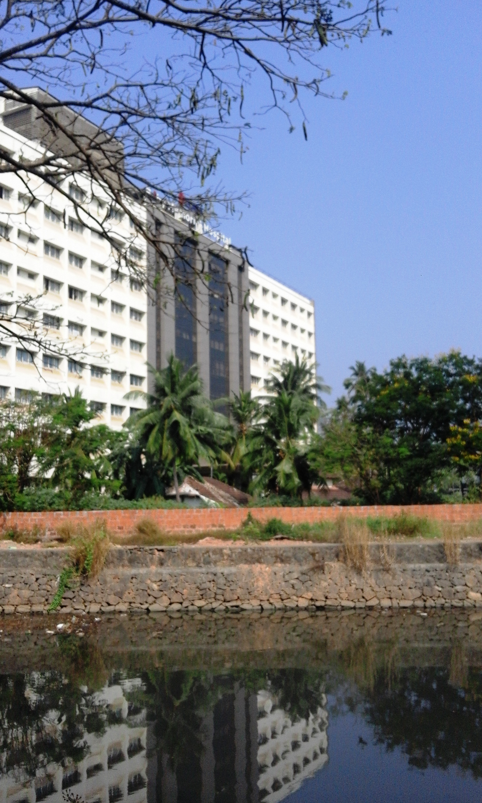 Kozhikode city, Kerala province, India.